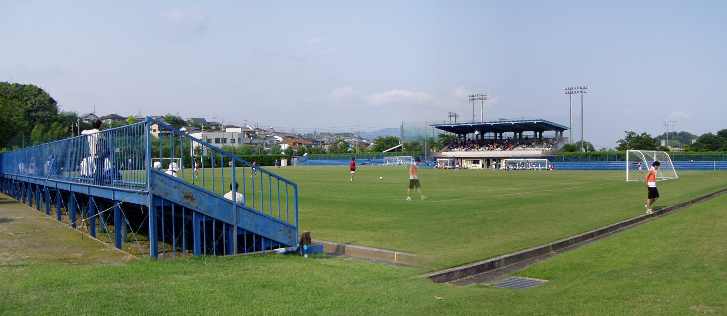 Fujieda City Football Graund